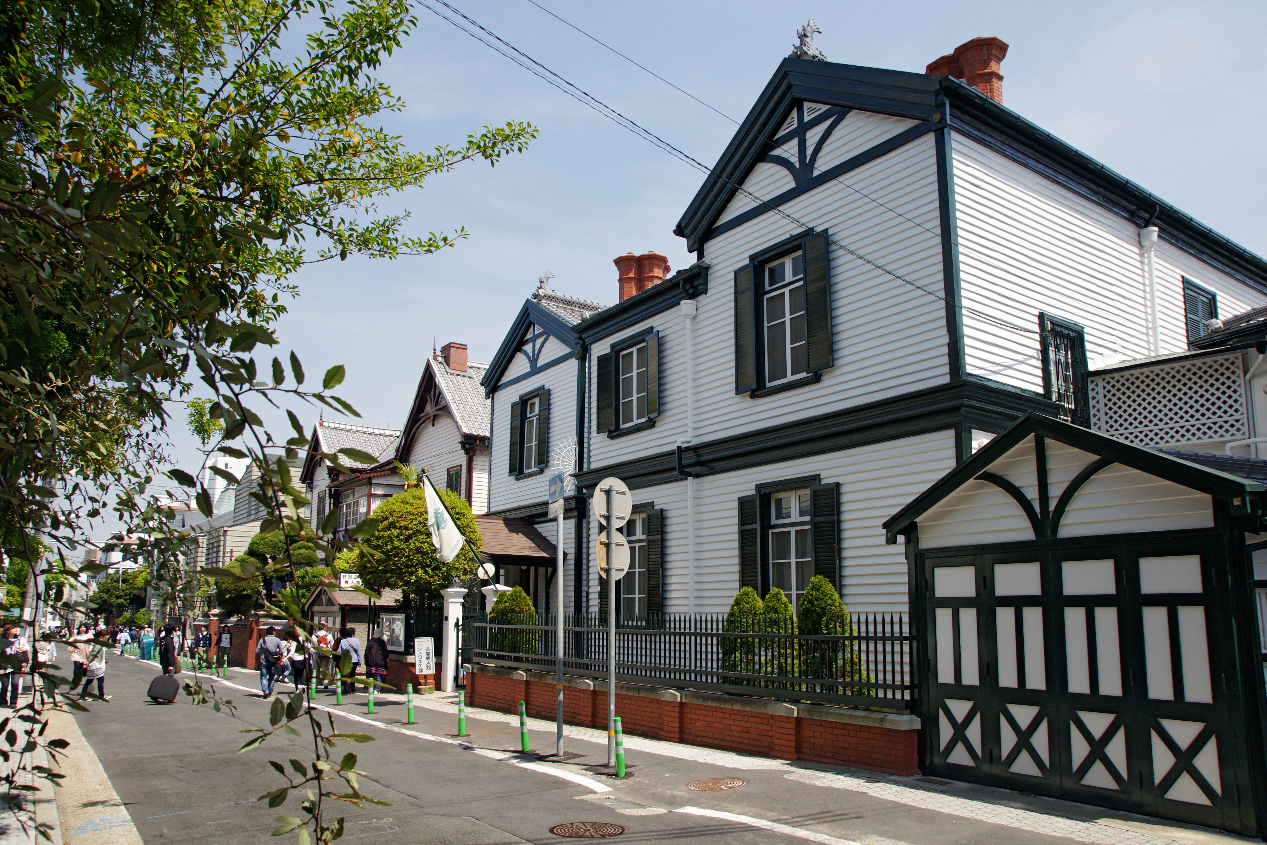 Choueke House in [:en:Kitano-chō